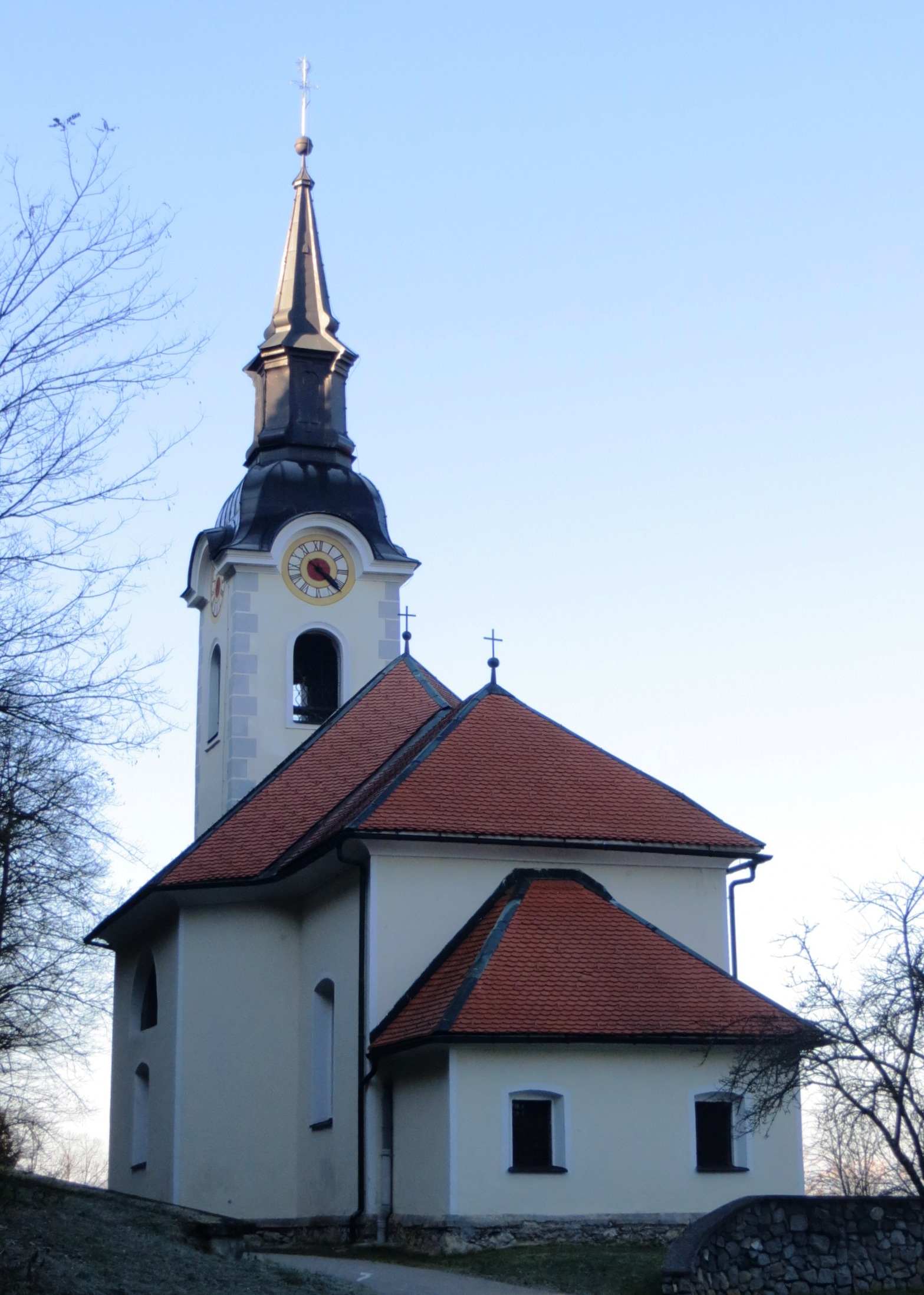 Virgin Mary Church in Šinkov Turn, Municipality of Vodice, Slovenia